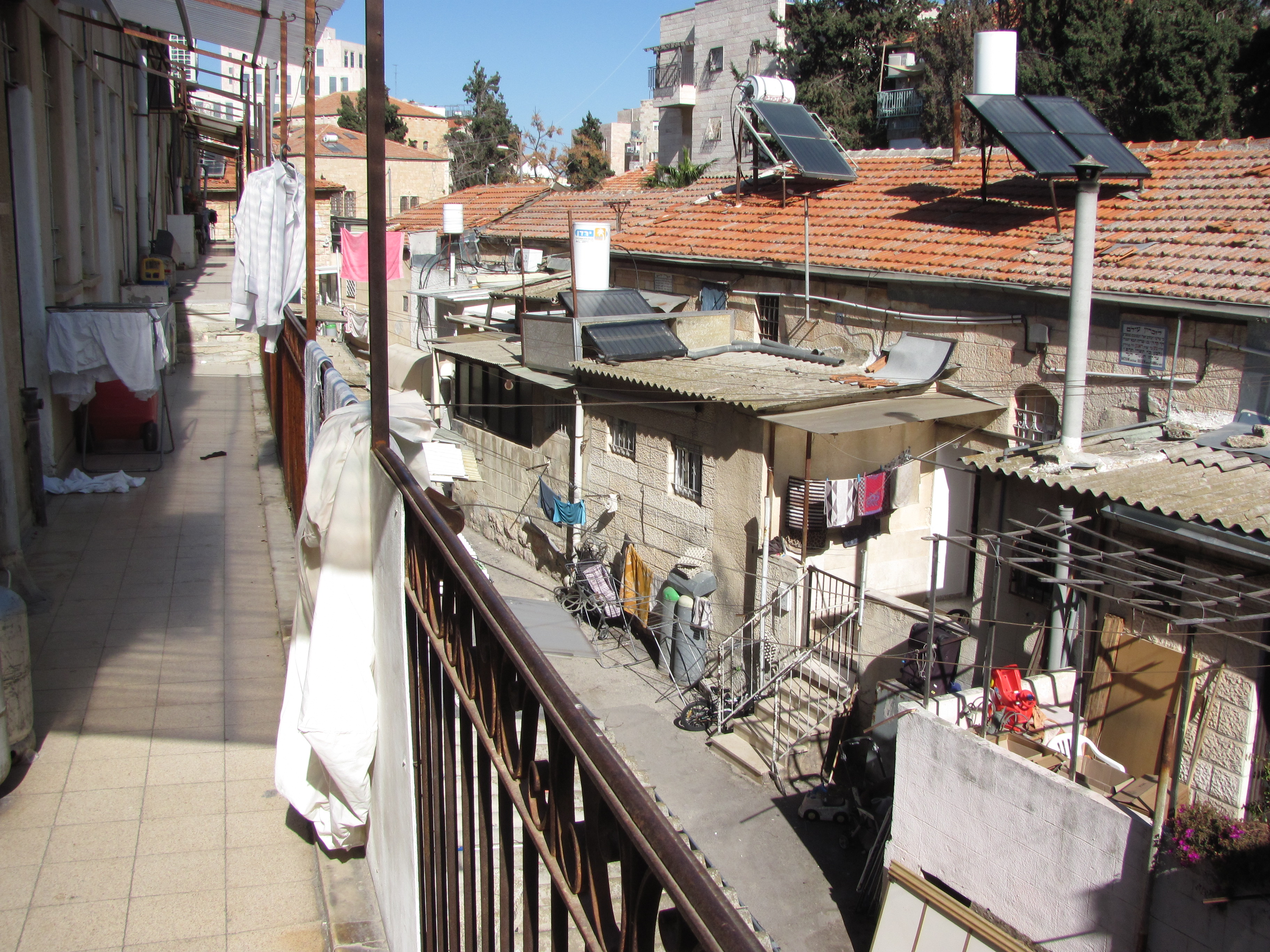 View of row houses and courtyard of Knesset Gimmel from a second-floor balcony. Location: Nachlaot, Jerusalem, Israel.